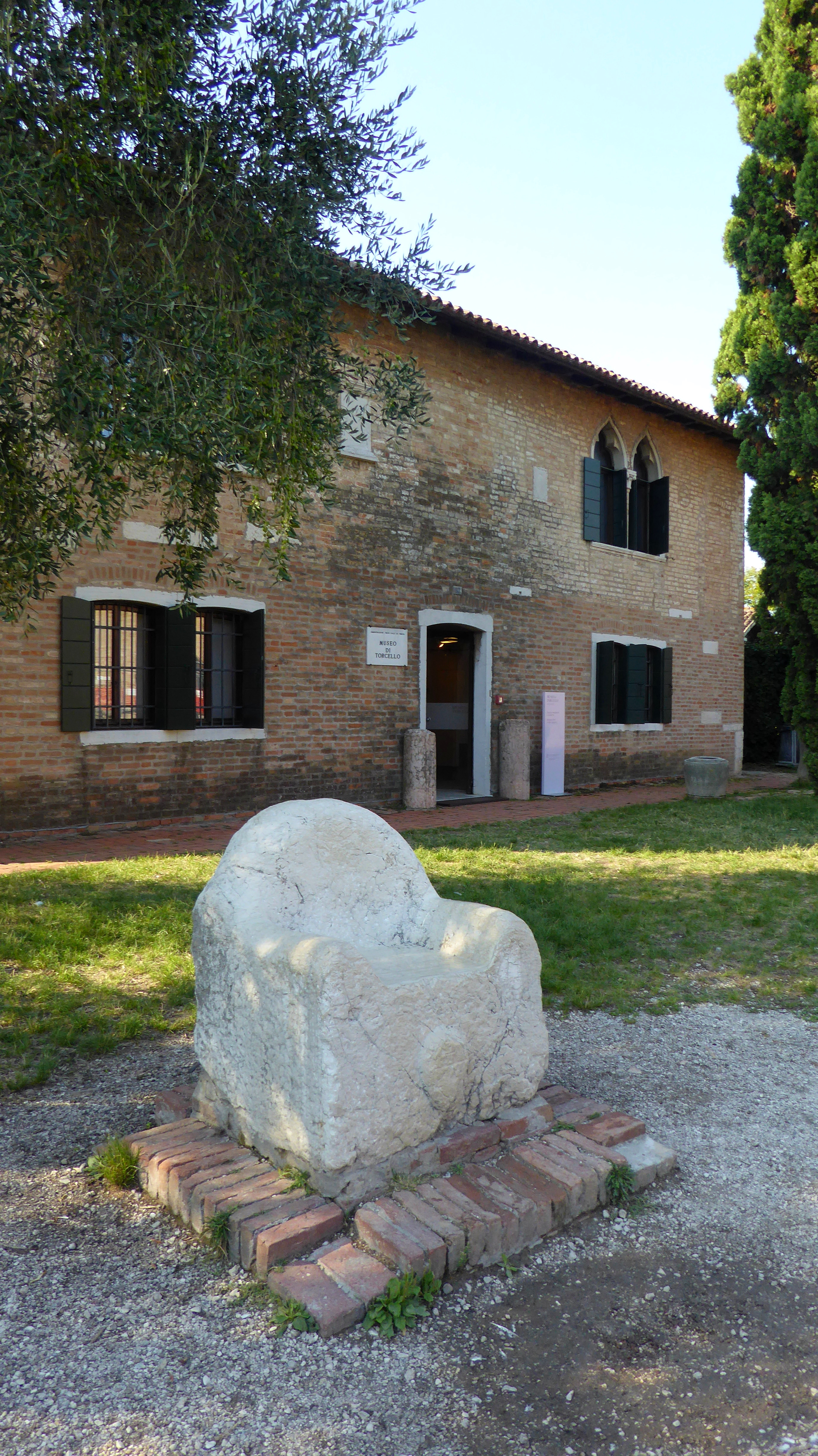 Attila's Throne with the medieval and modern section of the Museo Provinciale di Torcello behnd it. Located on Torcello.